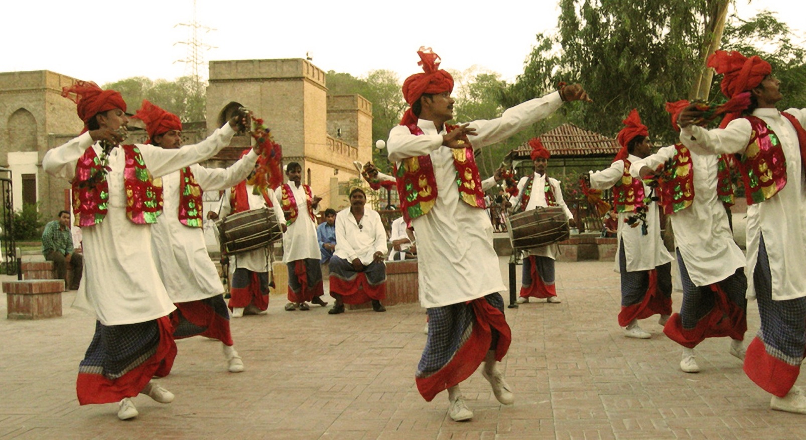 Bhangra is a form of dance and music that originated in the Punjab region. Bhangra dance began as a folk dance conducted by Punjabi farmers to celebrate the coming of Vaisakhi, a Punjabi Sikh festival. Today, Bhangra dance survives in different forms and styles all over the globe.